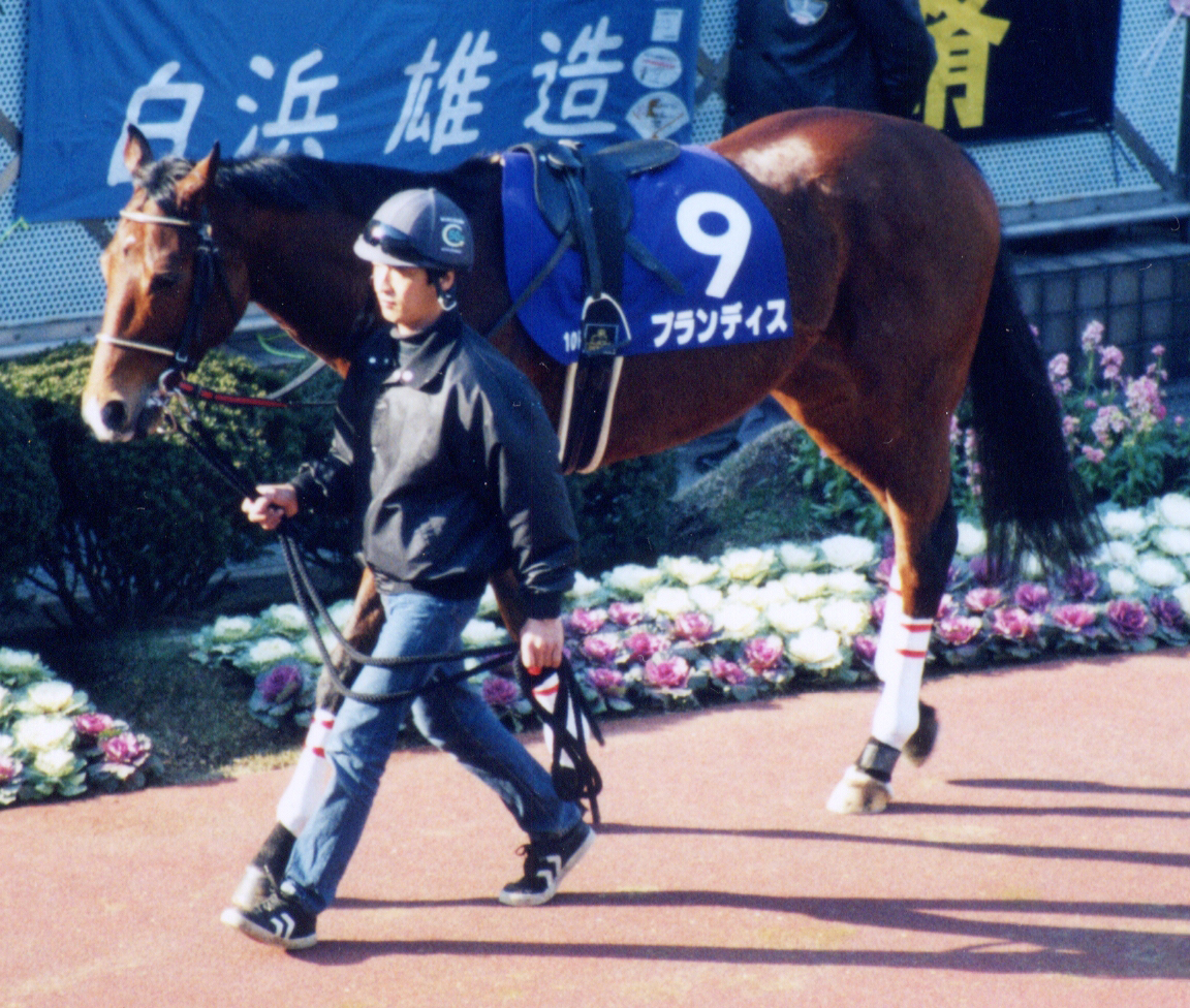 Brandis (horse)